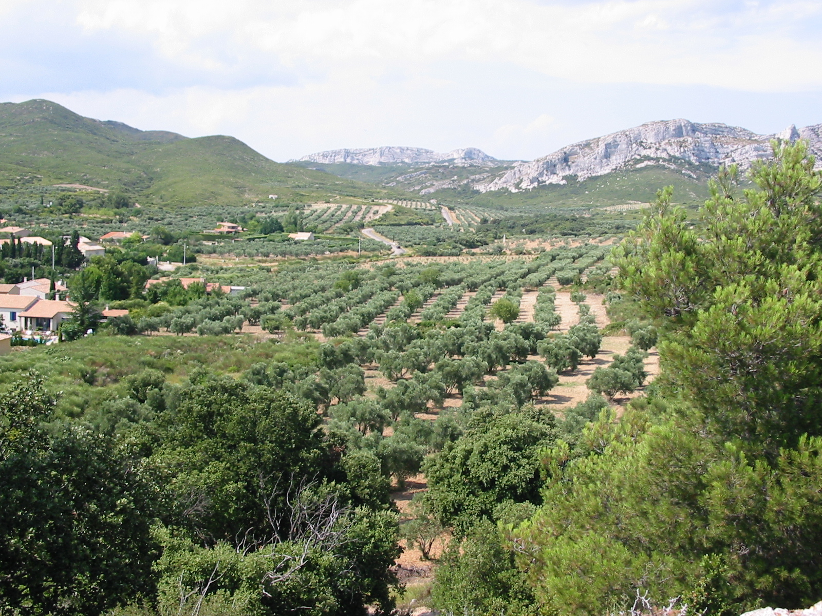 Olive trees fields at Aureille, France.